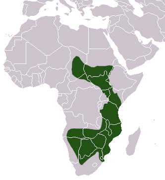 Ground Pangolin (Smutsia temminckii) range